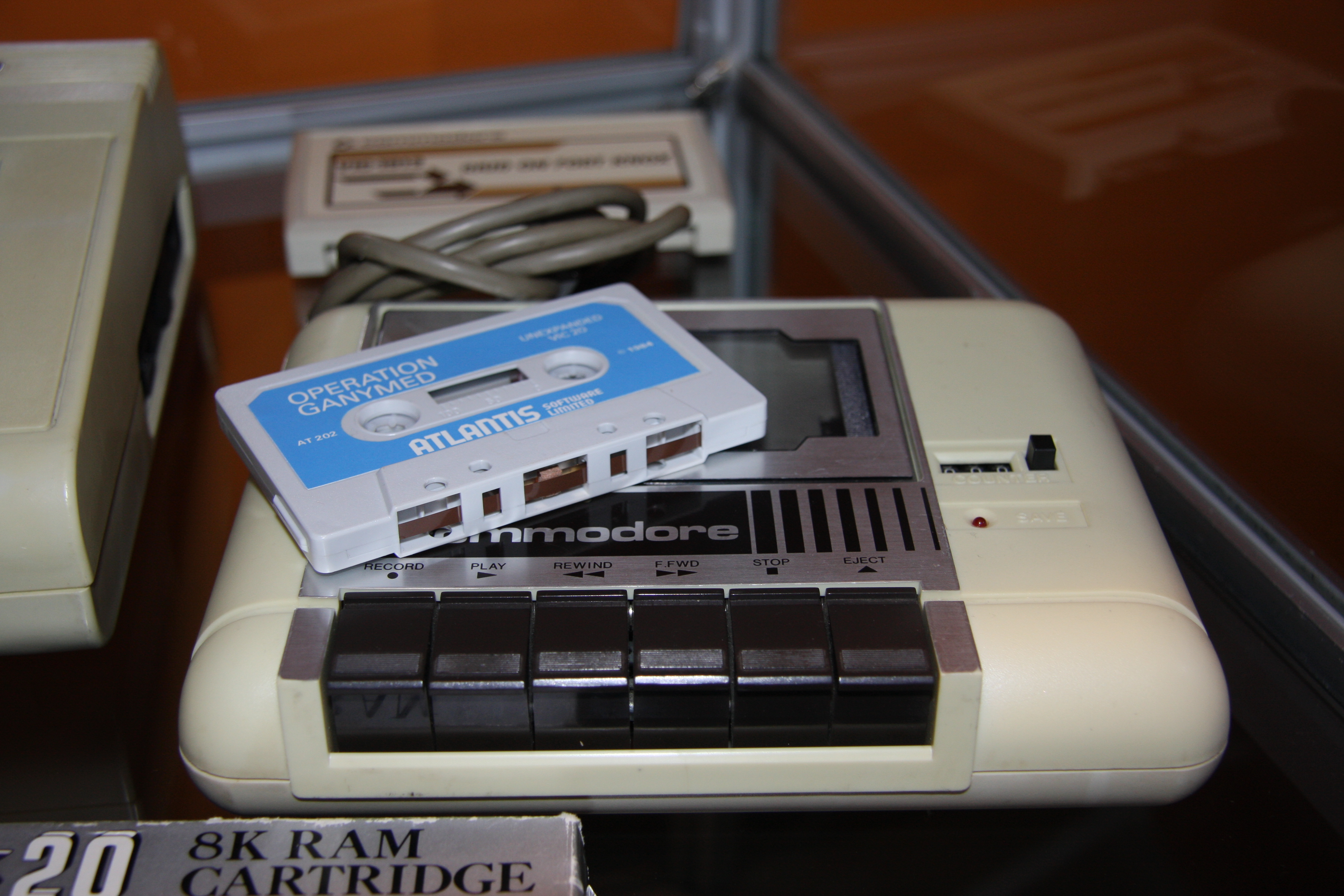 A Datassette by Commodore exhibited at the Gamescom 2009